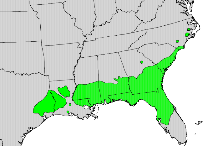 Range map of Magnolia grandiflora